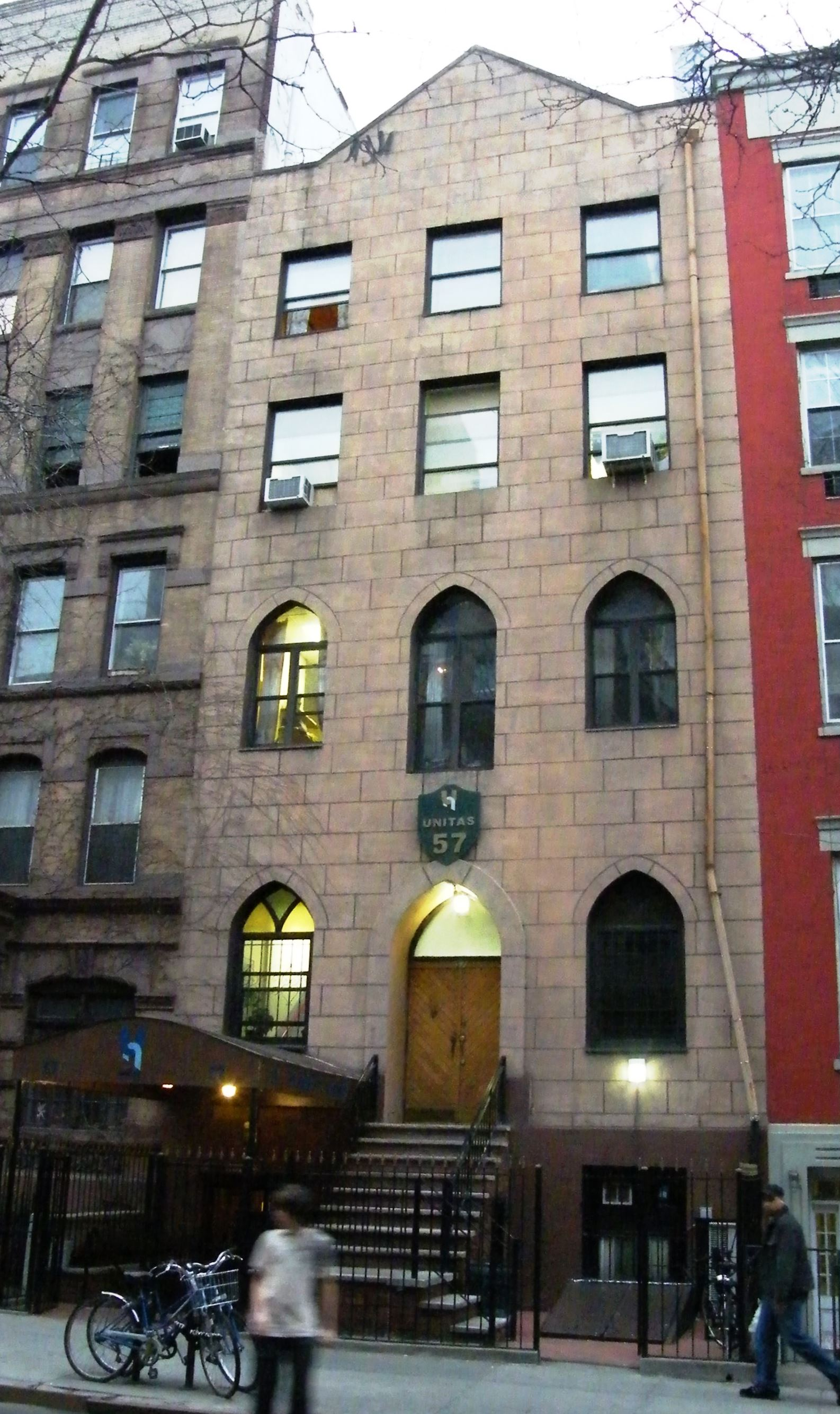 Club 57 on St. Marks Place in New York City East Village